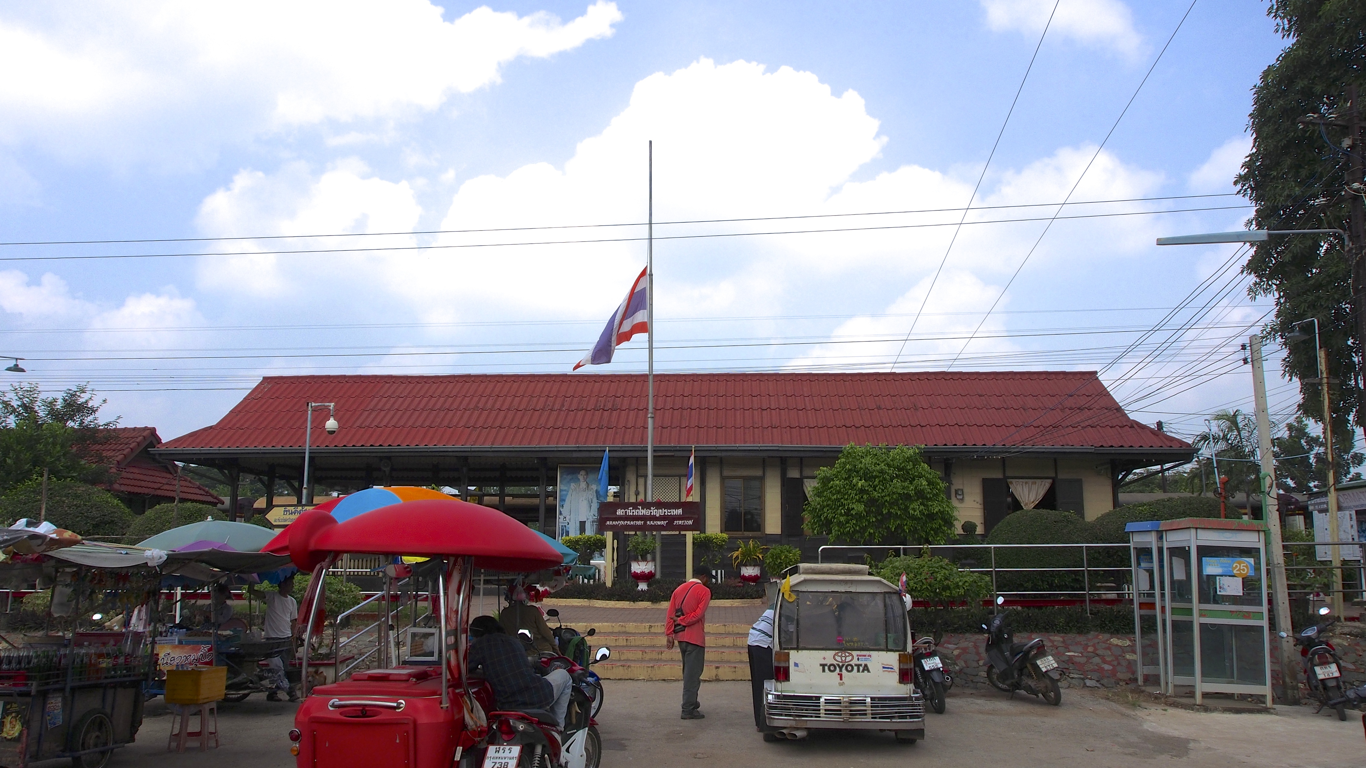 Aranyaprathet Railway Station This station is 10 minute tuk-tuk ride from the border and costs only $3.00. The train fare is 48baht or about $1.60. Plenty of food vendors outside the station, the meat on a stick was especially good from the vendor on the left. Easy to gather everything you need for the ride to Bangkok, water, beer and food,. It's all here and very inexpensive.